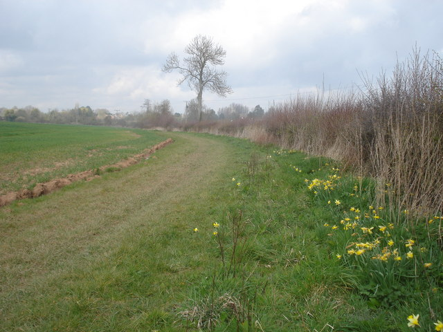 Daffodil Way approaching Dymock View northwards along what was once the Hereford & Gloucester Canal. A few daffodils near the hedgerow. Fifty years ago all the fields here would be solid with wild daffodils and the locals would be picking them and sending them to market in other parts of the country. Intensive farming has gradually killed off the bulbs, which are now largely restricted to the woodland, old orchards and hedgerows.